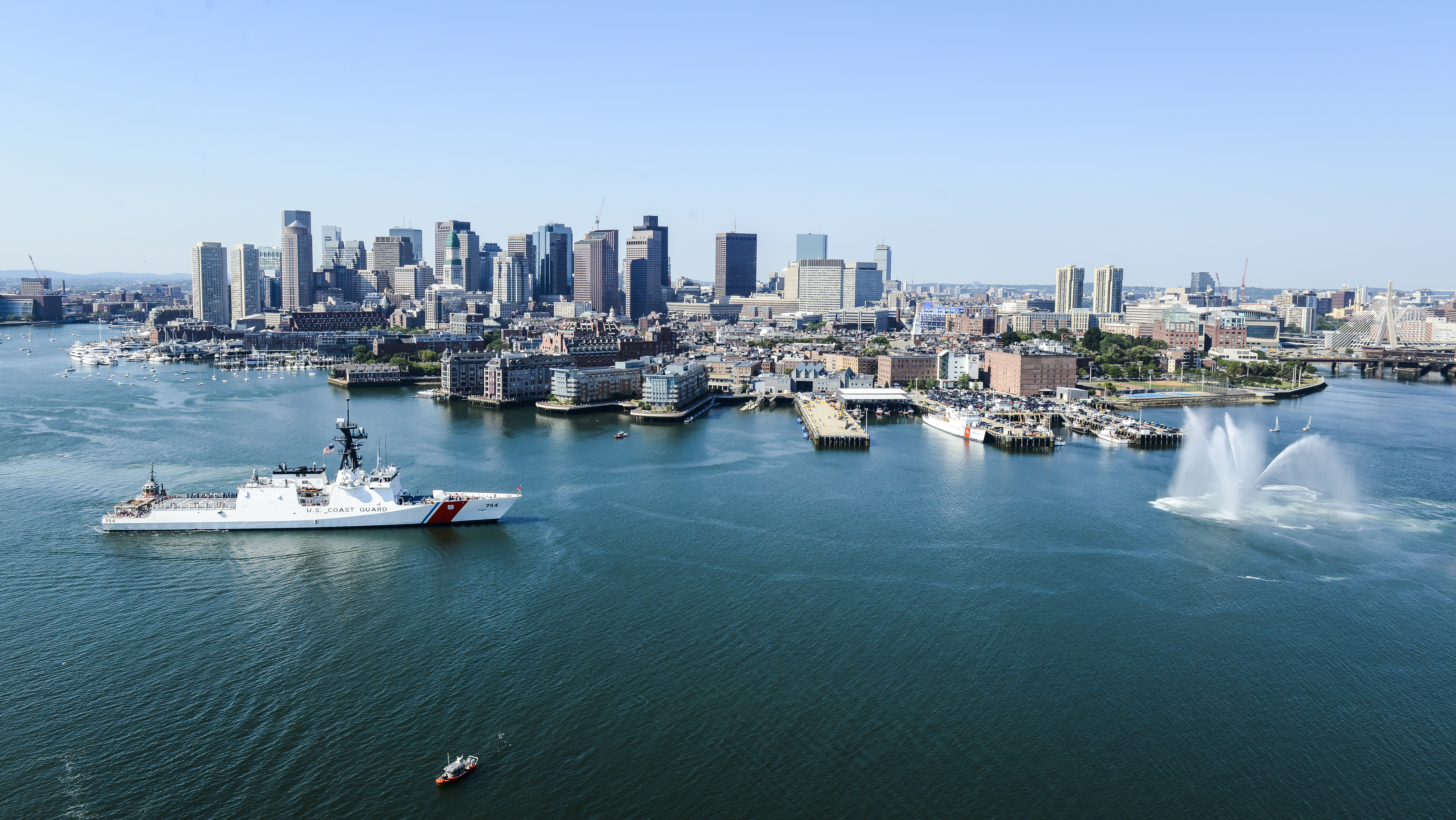 Is this the photo of the year? Go to the official Coast Guard Facebook page ( and “like” your favorite photos to place your vote and share your favorites with your friends! Don’t forget to check out the interactive bracket to see which photos are competing against each other: goo.gl/q0aIoD The Coast Guard’s latest 418-foot National Security Cutter, James (WSML 754), pulls into Boston Harbor Aug. 3, 2015. The James is the fifth of eight planned National Security Cutters – the largest and most technologically advanced class of cutters in the Coast Guard’s fleet. The cutters’ design provides better sea-keeping, higher sustained transit speeds, greater endurance and range, and the ability to launch and recover small boats from astern, as well as aviation support facilities and a flight deck for helicopters and unmanned aerial vehicles. (U.S. Coast Guard photo by Petty Officer 3rd Class Ross Ruddell)